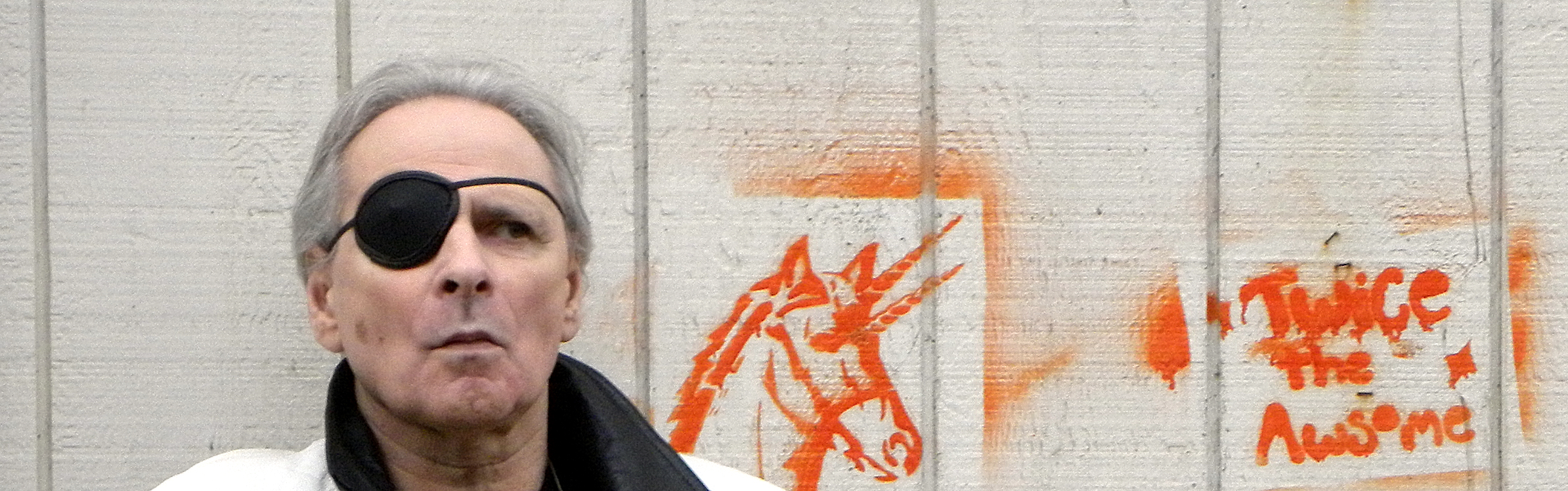 This photo was taken Andrew himself and shared for public using, such as adding to wikipedia and other internet resouces, with info about him.